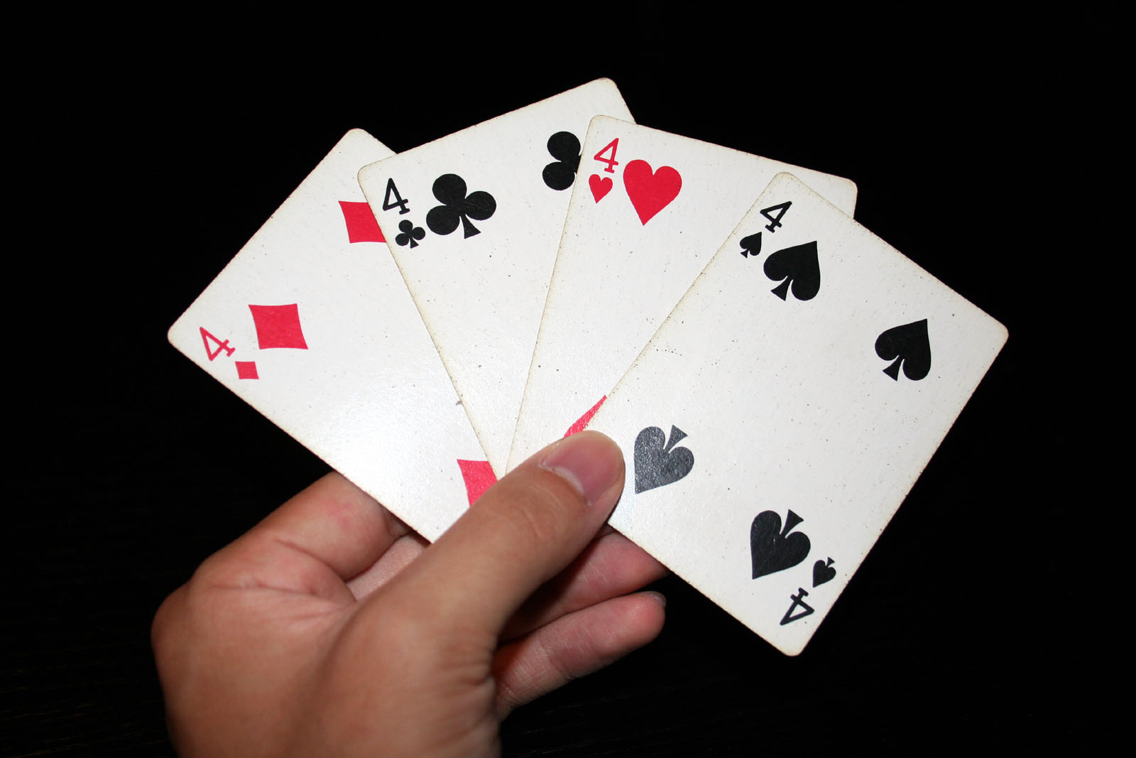 A hand holding the four 4's in a standard deck of cards: Diamonds, Clubs, Hearts, Spades.